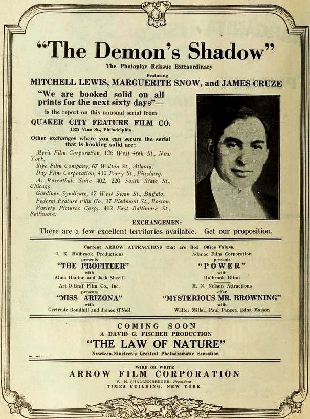 Ad for the American film serial Zudora (1914) under its 1919 reissue title The Demon's Shadow, on page 1424 of the March 15, 1919 Moving Picture World.